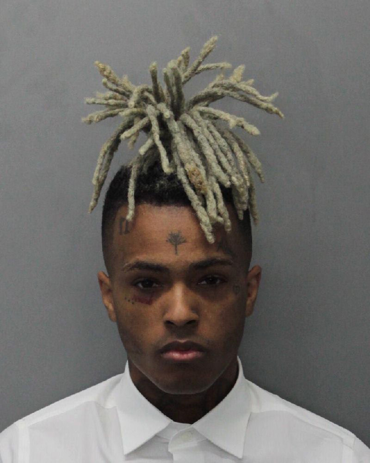 This is a mugshot of rapper XXXTentacion after being taken into pre-trial custody on December 15, 2017.Best quality available) In this handout provided by the Miami Dade County Corrections, Rapper XXXTentacion, also known as Jahseh Dwayne Onfroy poses for his mugshot after being charged with seven new felonies stemming from a 2016 domestic violence case on December 15, 2017 in Miami, Florida. The new charges are for witness tampering and harassment.